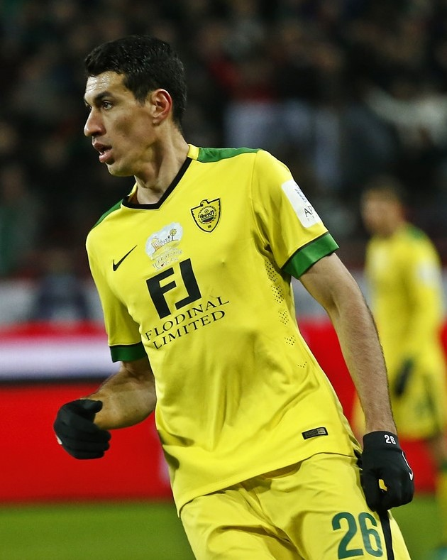 Xandão